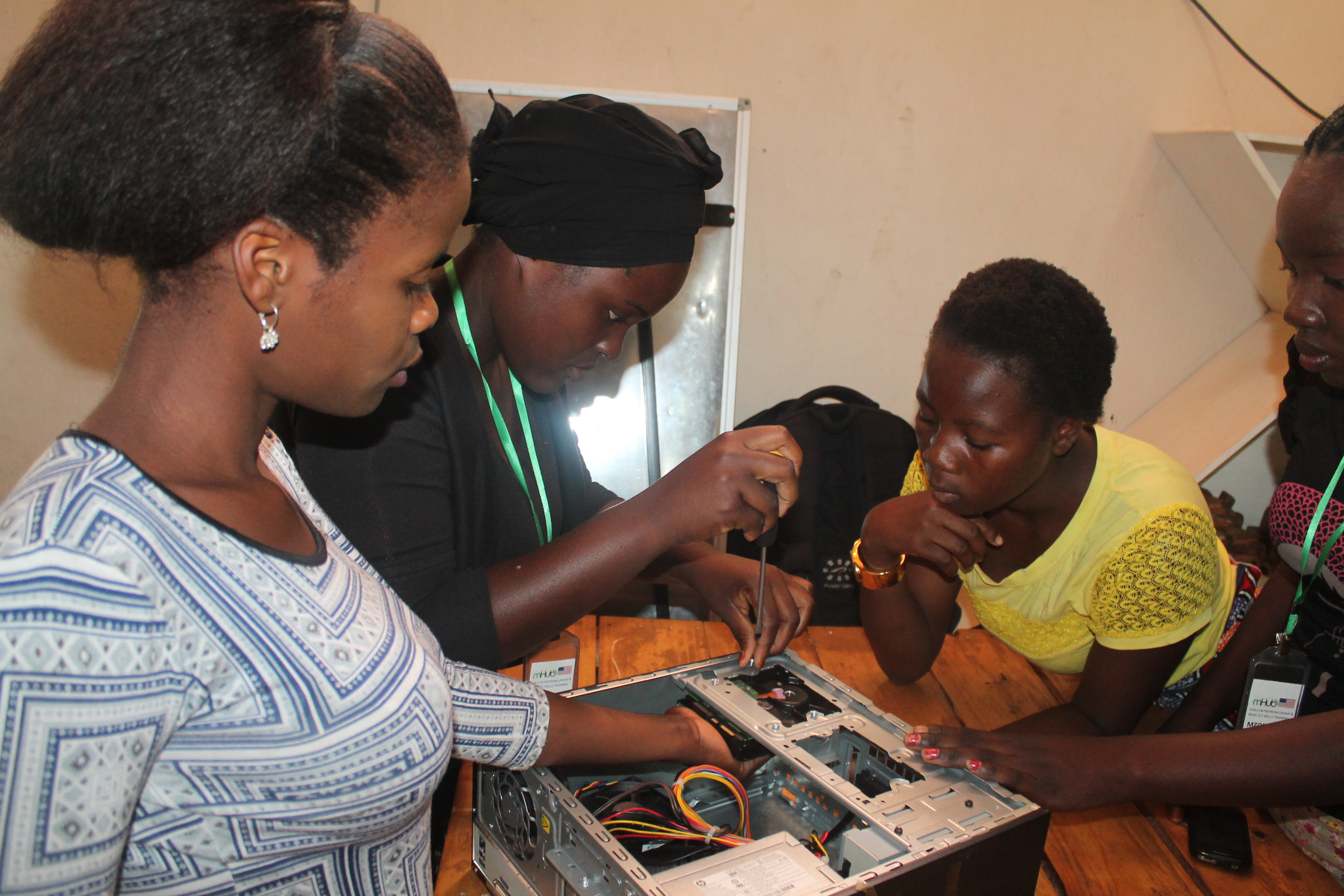 Girls repairing a computer at mHub, Malawi's first technology and innovation hub in Lilongwe. This is an image of "African people at work" from Malawi